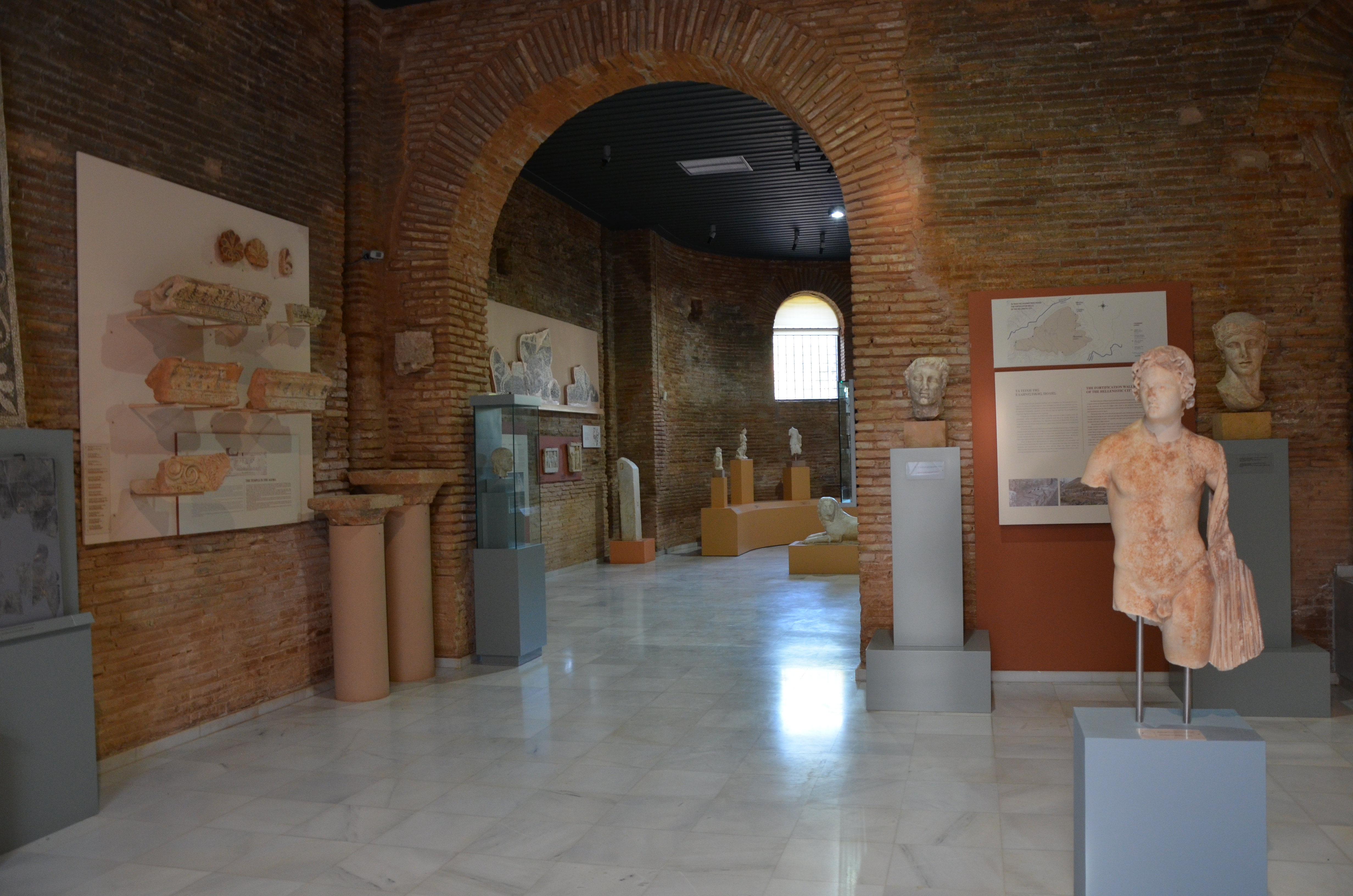 Archaeological Museum of Sikyon, Greece